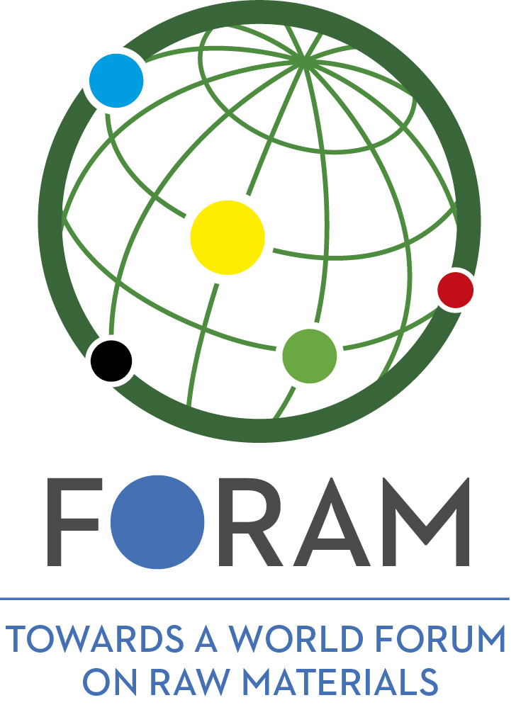 This image depicts the logo of the Horizon2020 project FORAM (Towards a World Forum on Raw Materials).